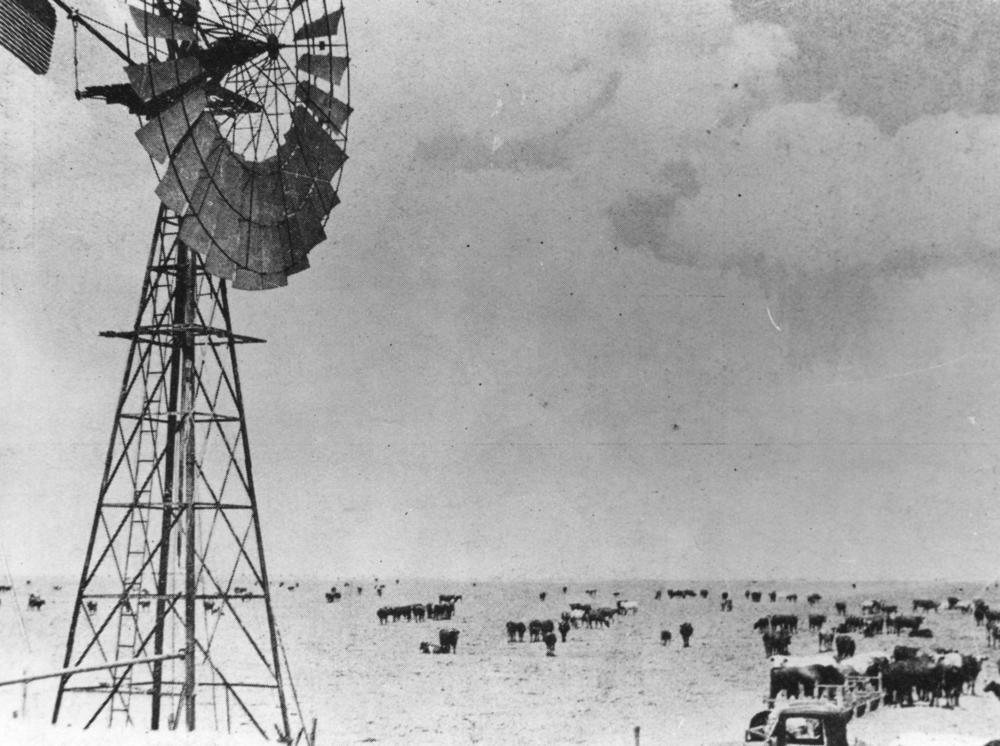 Cattle on Avon Downs Station, Northern Territory, 1939. Cattle around one of the bores on the Avon Downs cattle property, 1939.